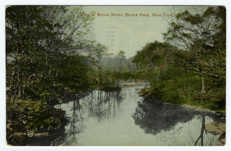 Digital ID: 836883. ca. 191- Source: Mid-Manhattan Picture Collection / New York City -- parks ( Repository: The New York Public Library. Mid-Manhattan Library. Picture Collection. See more information about and others at Persistent URL: Rights Info: No known copyright restrictions; may be subject to third party rights (for more information